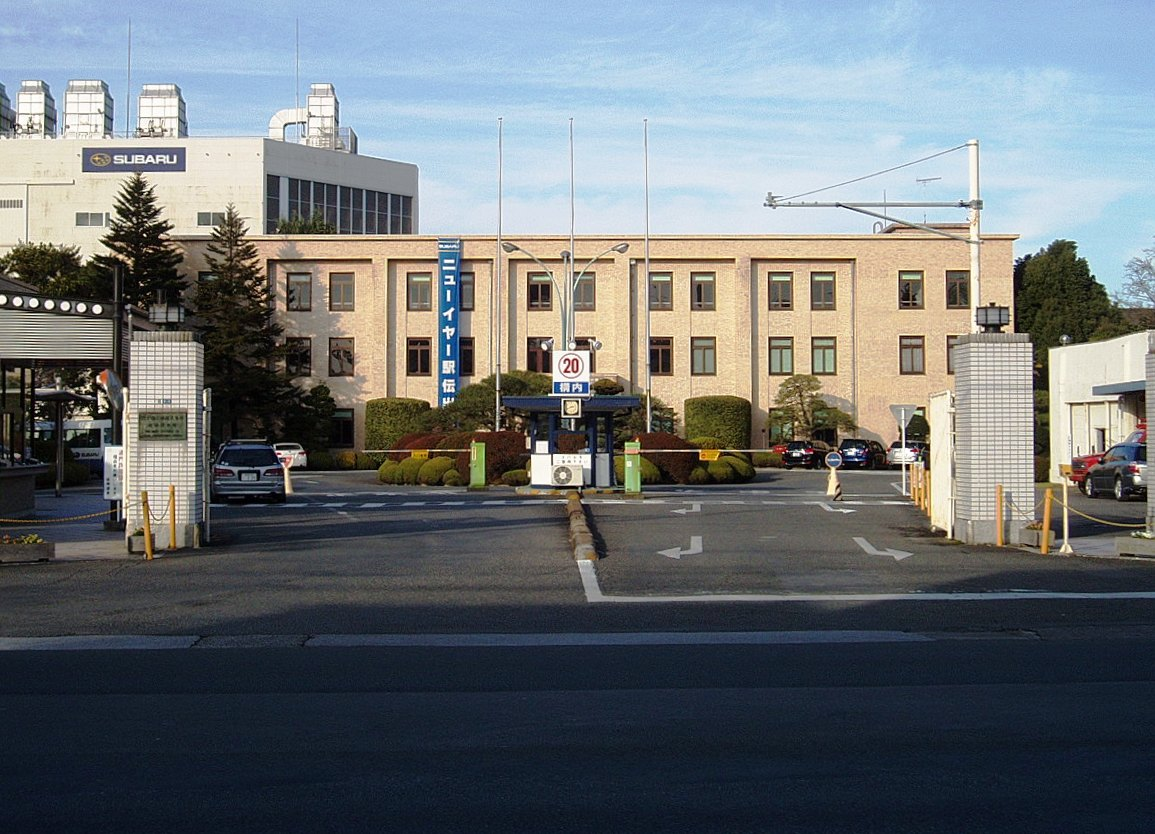 The main entrance to Gunma Main Plant of Fuji Heavy Industries Ltd., located in Ota, Gunma, Japan.